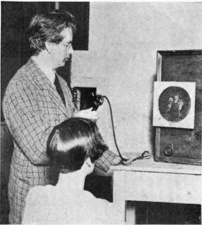 Scottish television pioneer John Logie Baird (left) and his television receiver. This was one of the world's first television systems, with which Baird demonstrated transmission of moving images in 1925. The transmitter consisted of a spinning disk with 30 lenses in it which focused light from a spot on the image onto a selenium photoelectric cell. As each lens swept across the subject the photocell produced an electric signal which varied with the brightness of the subject at each point along the scan line. In the television receiver shown here, the video signal from the transmitter is applied to a neon lamp behind another spinning disk with holes in it. As each hole sweeps in front of the lamp it reproduces a line of the image. Baird, left, holds a control with which he adjusts the speed of the disk to synchronize it with the transmitter disk. The reproduced image, visible at right was a dim orange, composed of 30 scan lines, just enough to recognise faces. Because human faces did not have enough contrast to show up well, Baird used ventriloquist dummies in his first demonstrations, making them move and talk for the camera. The image shows his partner with two dummies on his lap. The television image shown was probably retouched in this photo. Caption: "THE PICTURE THAT THE OBSERVER ACTUALLY SEES - This scene inside the receiving studio shows how the radioed living picture actually appears. The operator is holding the two dolls on his lap in much the same manner as the illustration on page 650. A loudspeaker located in the same cabined reproduces the voices at the same time."